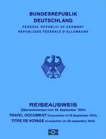 Front of the German passport for stateless people